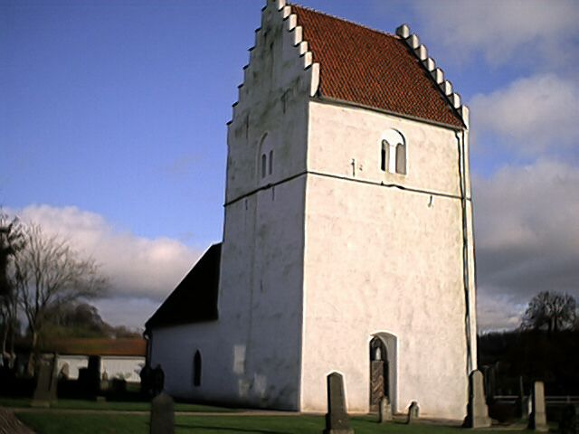 Ramsåsa Church